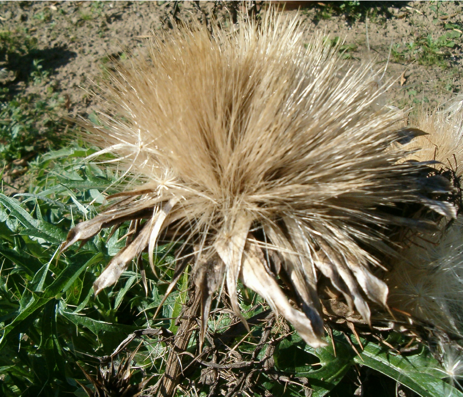 Location: Botanical Gardens Berlin Fruits